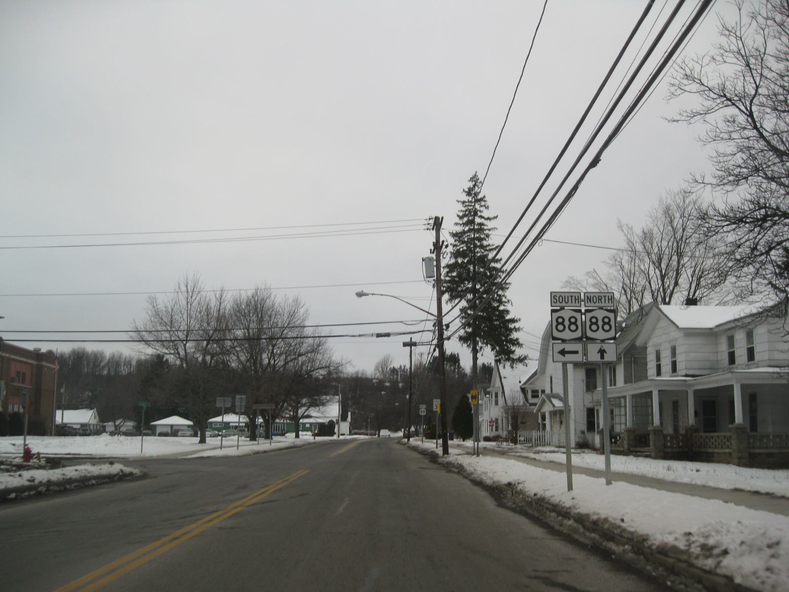 Westbound on Main Street at New York State Route 88 in the village of Sodus.